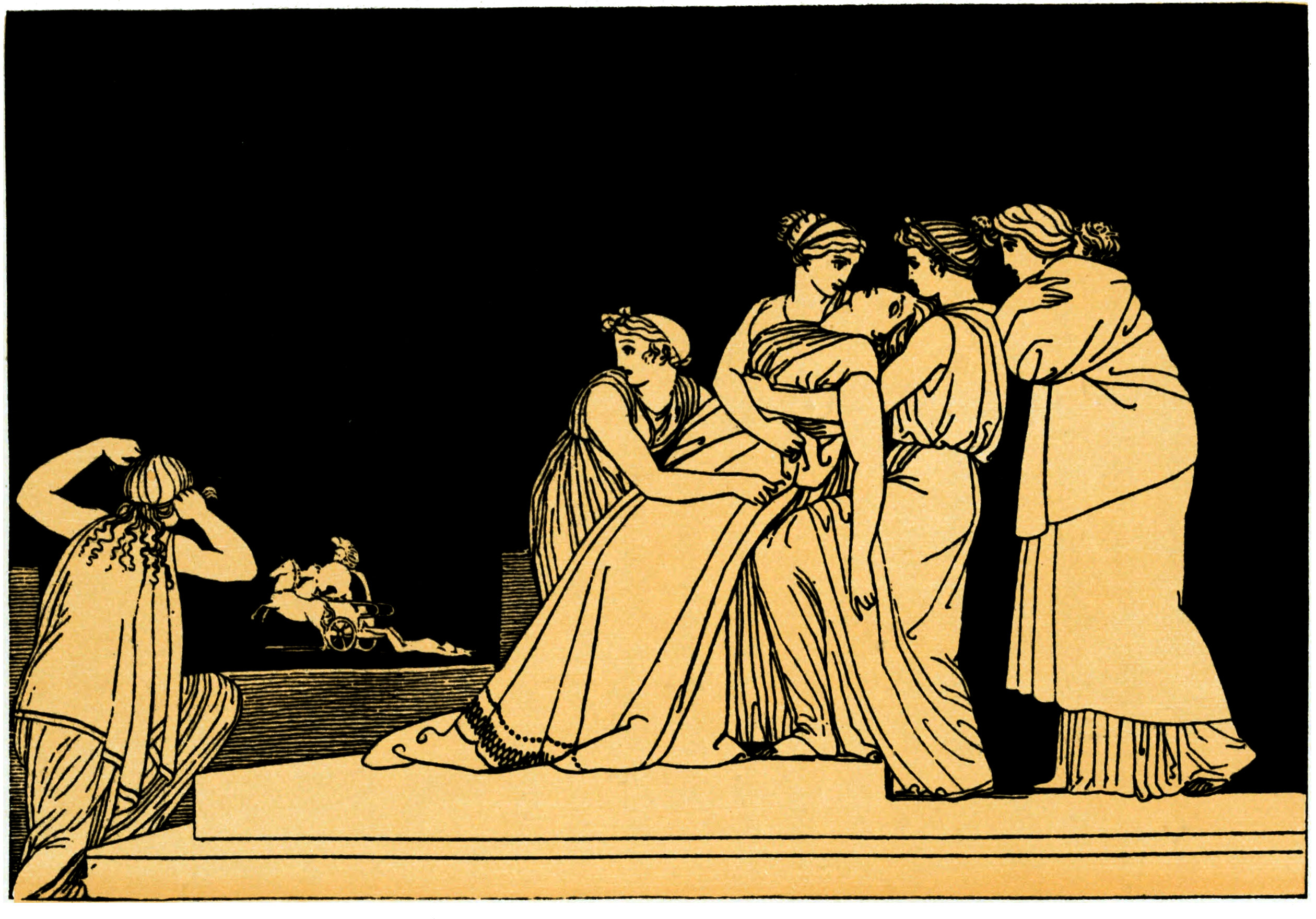 Andromaché fainting on the wall.